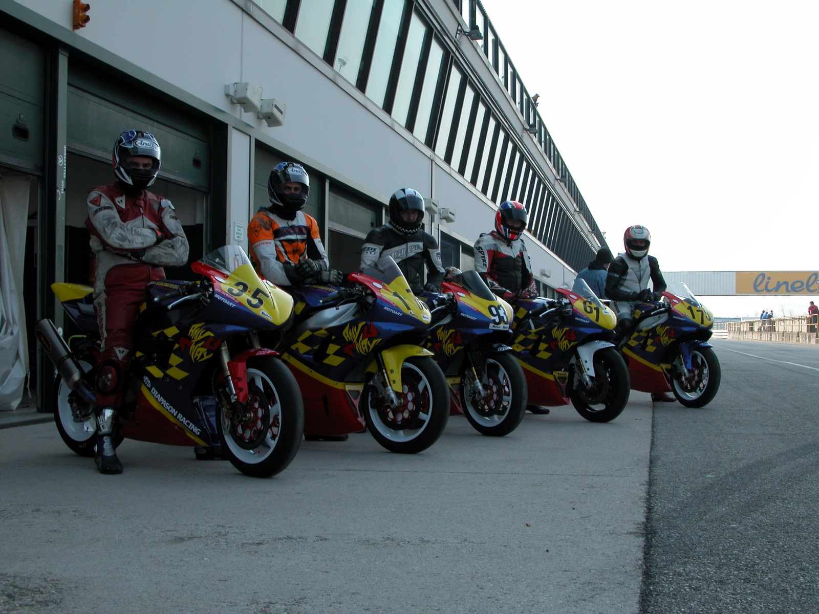 Ivan Sala Team Anyway Italy